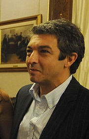 Argentine actor, Ricardo Darin, in Casa Rosada (argentine government building). Buenos Aires.